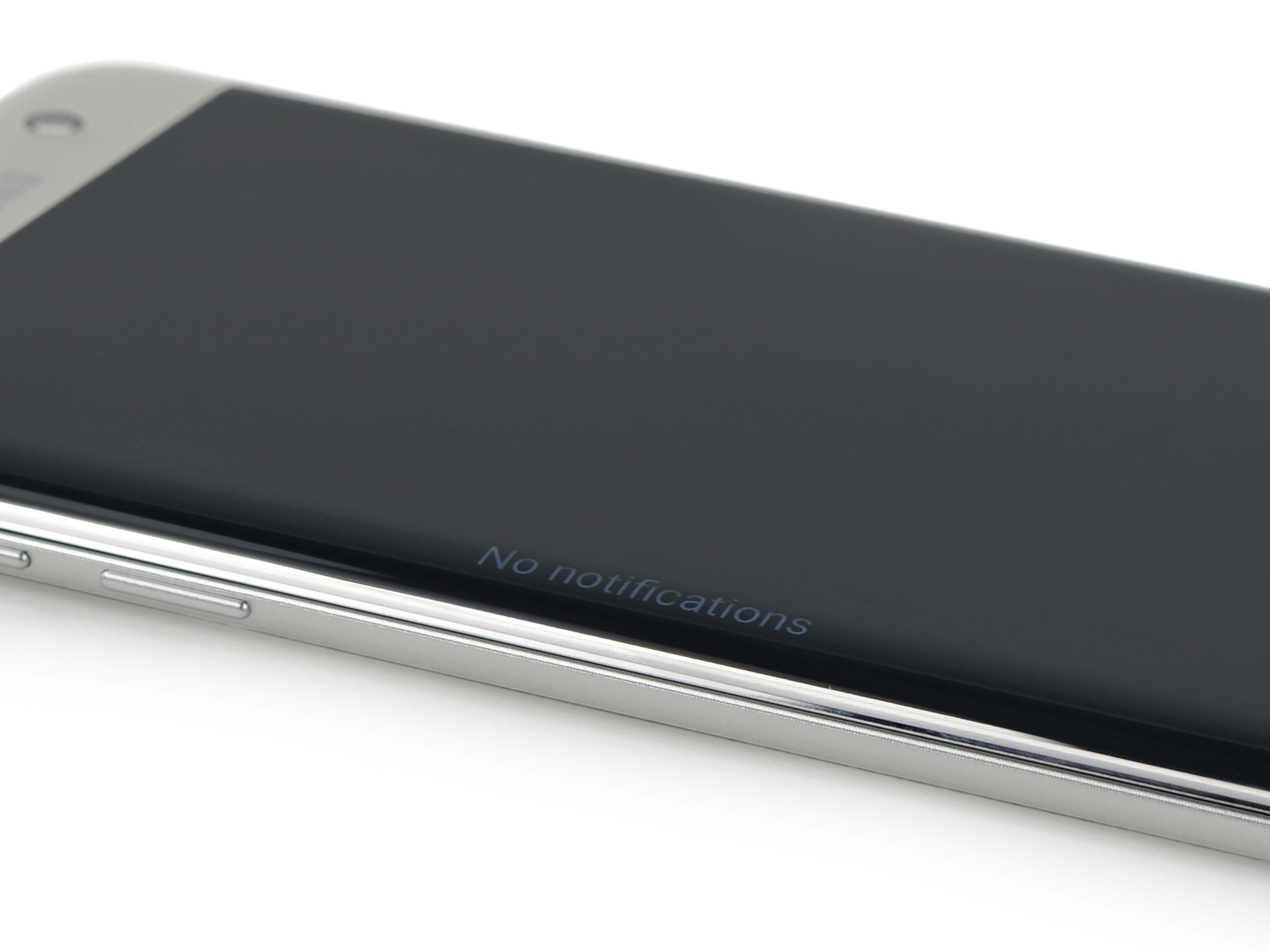 This shows the S7 Edge side where notifications are shown.